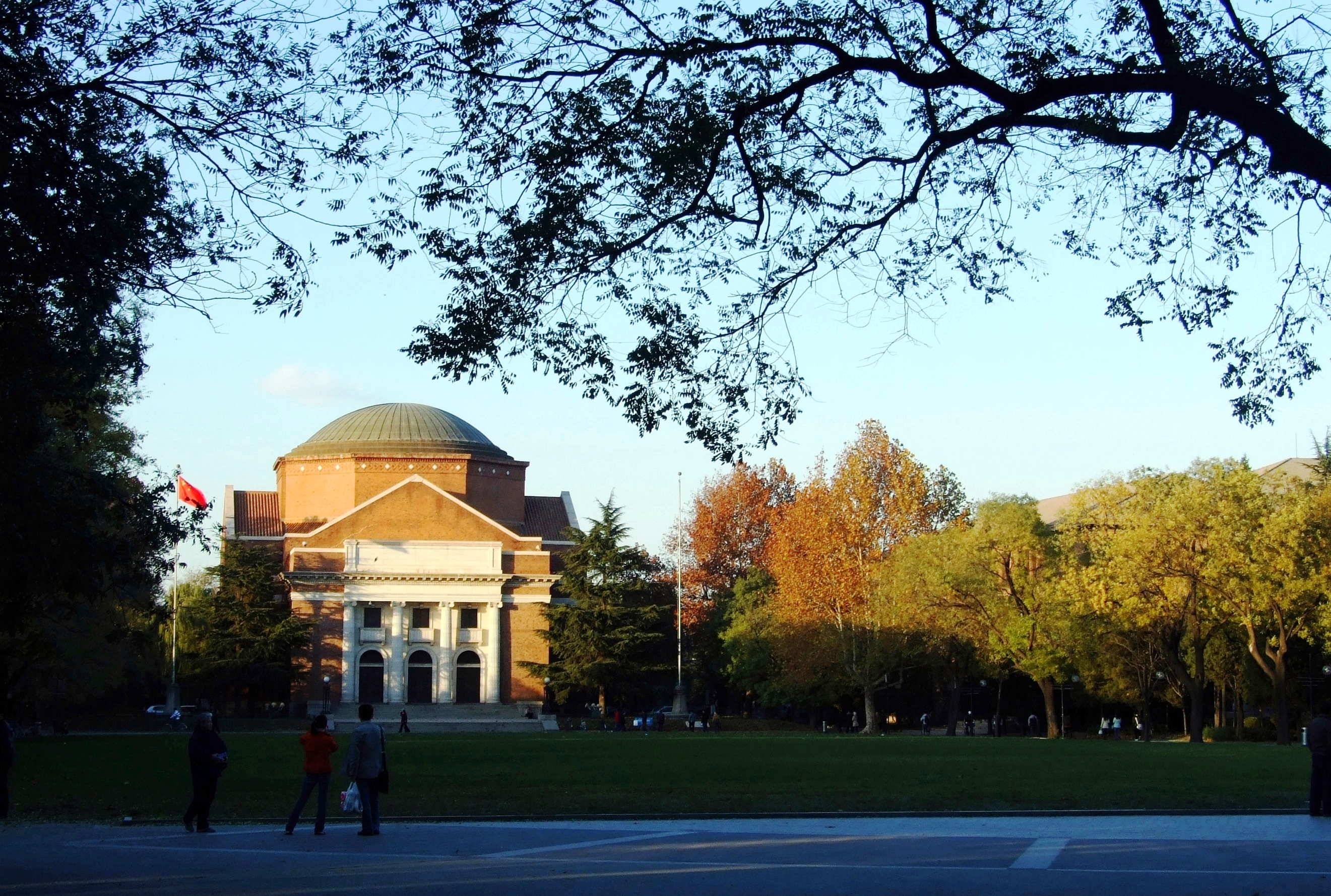 The grounds of the Tsinghua University, with the "Grand Auditorium"